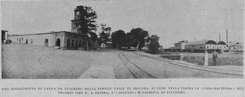 A sugarcane plant in the fertile Chicama Valley. You can see in the figure the 'Casa-Hacienda' of the old type, on the right, the 'Ingenio' - Fabrica di Zucchero